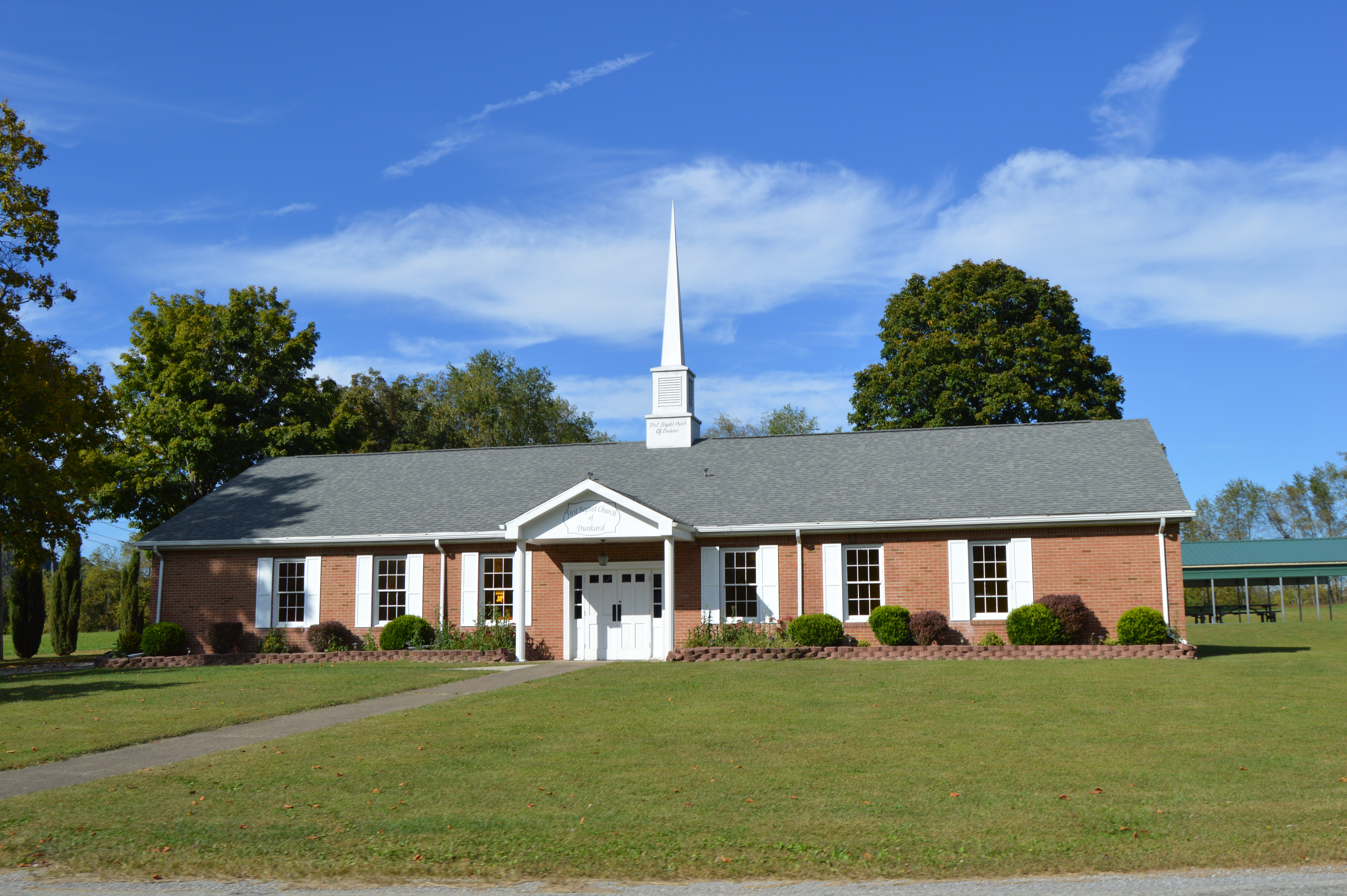 Front of Dunkard Baptist Church, located at 106 Plant Road in the community of Dunkard, Pennsylvania, United States.